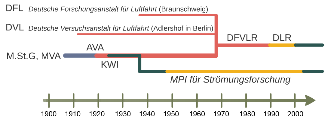 Evolution of aerodynamic institutes in Göttingen